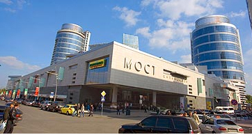 VARUS 4, Dnepropetrovsk, Most City Center